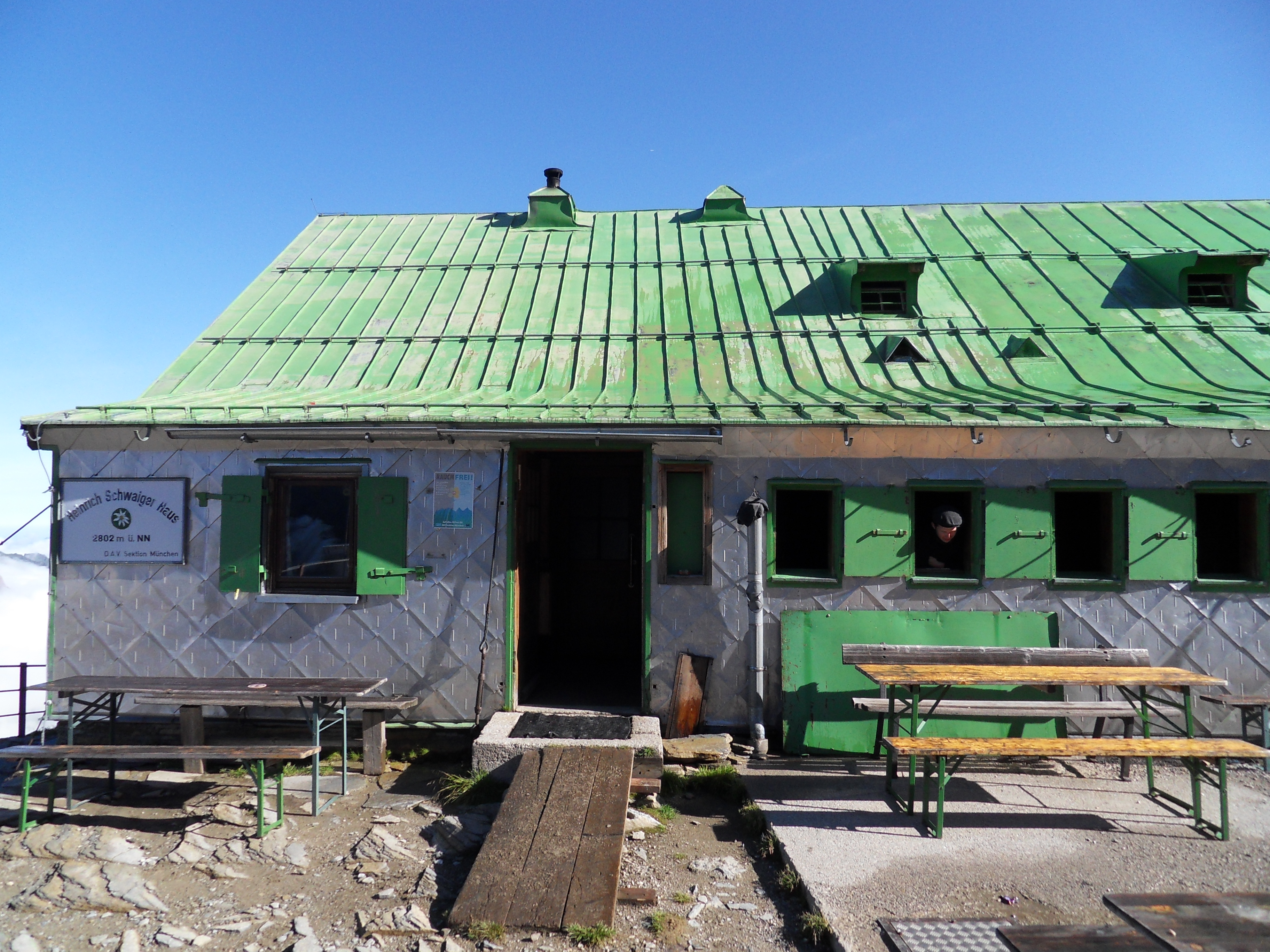 Alpine Hut "Heinrich-Schwaiger Haus", Austria.